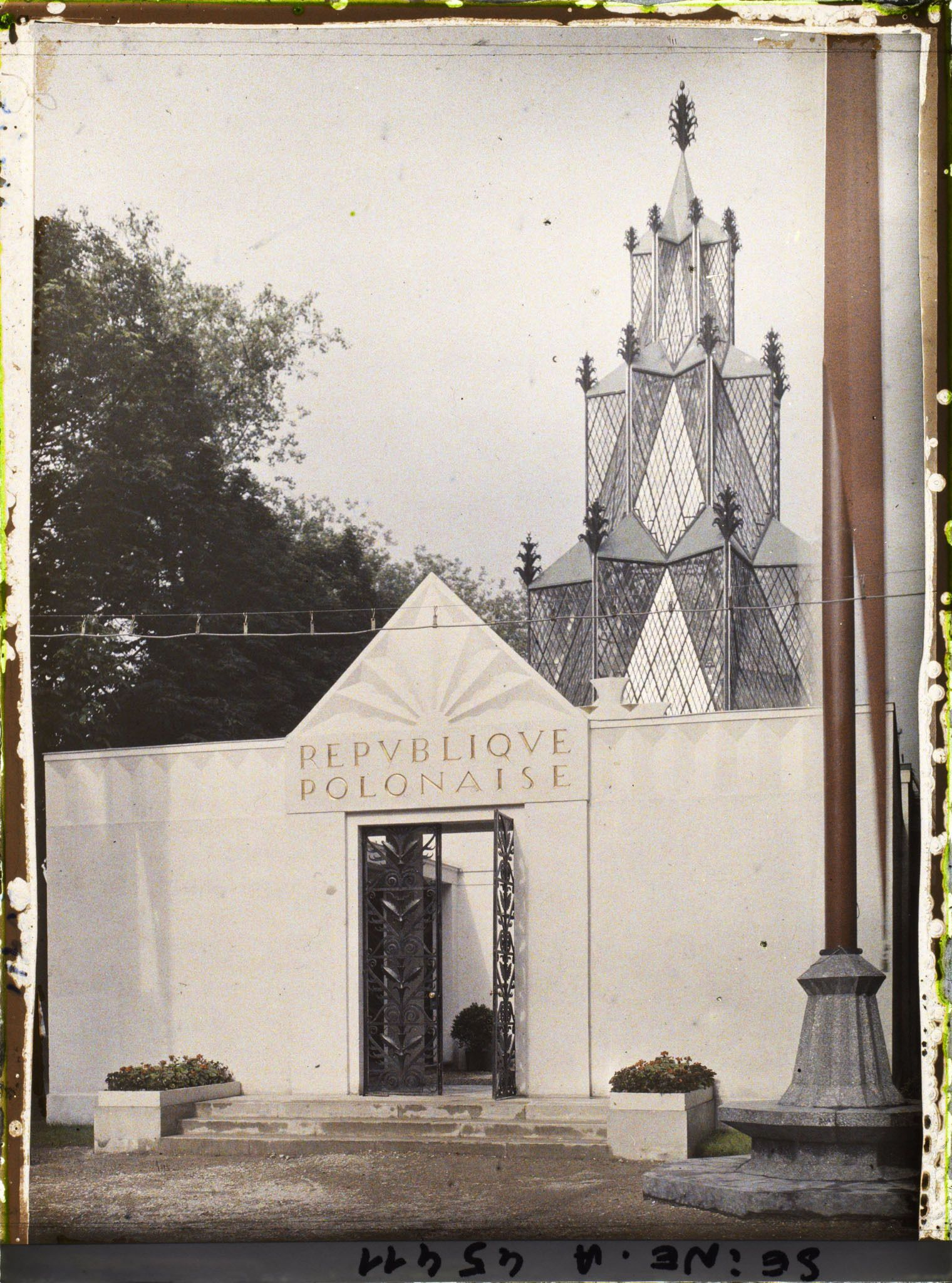 Polish pavilion, example of art déco architecture (architects Józef Czajkowski, Wojciech Jastrzębowski and sculptor Hernyk Kuna and painters Tadeusz Gronowski, Józef Mehoffer and Zofia Stryjeńska won Golden Medals in Paris) at International Exhibition of Modern Decorative and Industrial Arts, Paris, 1925. This Autochrome Lumière was not colorized. Rear facade. Visible Polish flag.